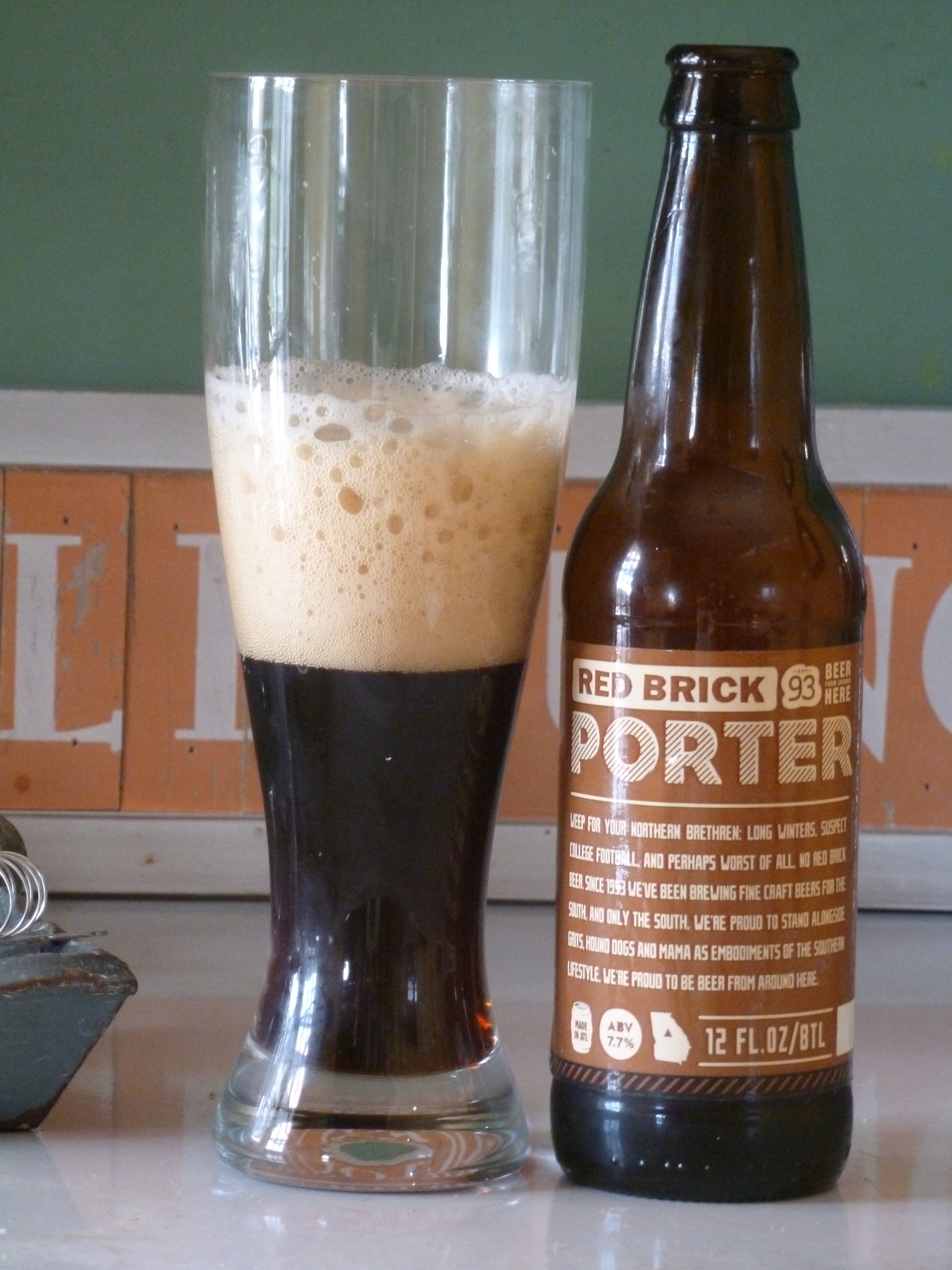 Red Brick porter